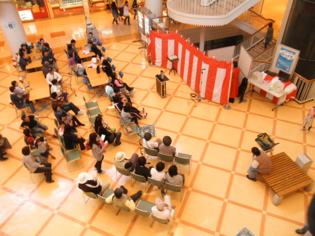 Komatsushima shopping plaza Lupia Atrium